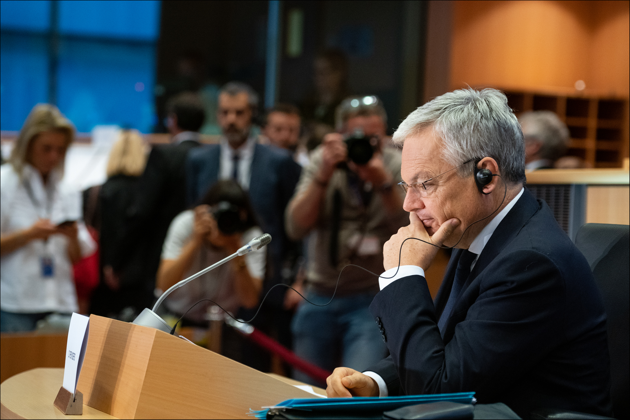 Before the European Parliament can vote the new European Commission led by Ursula von der Leyen into office, parliamentary committees will assess the suitability of commissioners-designate. On 23-26 May, more than 200,000,000 people in 28 EU countries went to the polls to elect members of the European Parliament, giving them a strong democratic mandate, including voting into office the new European Commission and examining the competencies and abilities of its commissioners-designate. Elected members of the European Parliament will also listen to their ideas and will assess their willingness to take concrete actions on the issues that Europeans care about. Each candidate commissioner is invited for a live-streamed, three-hour hearing in front of the committee or committees responsible for their proposed portfolio. The hearings will take place between Monday 30 September and Tuesday 8 October. This photo is free to use under Creative Commons license CC-BY-4.0 and must be credited: "CC-BY-4.0: © European Union 2019 – Source: EP". No model release form if applicable. For bigger HR files please contact: webcom-flickr(AT)